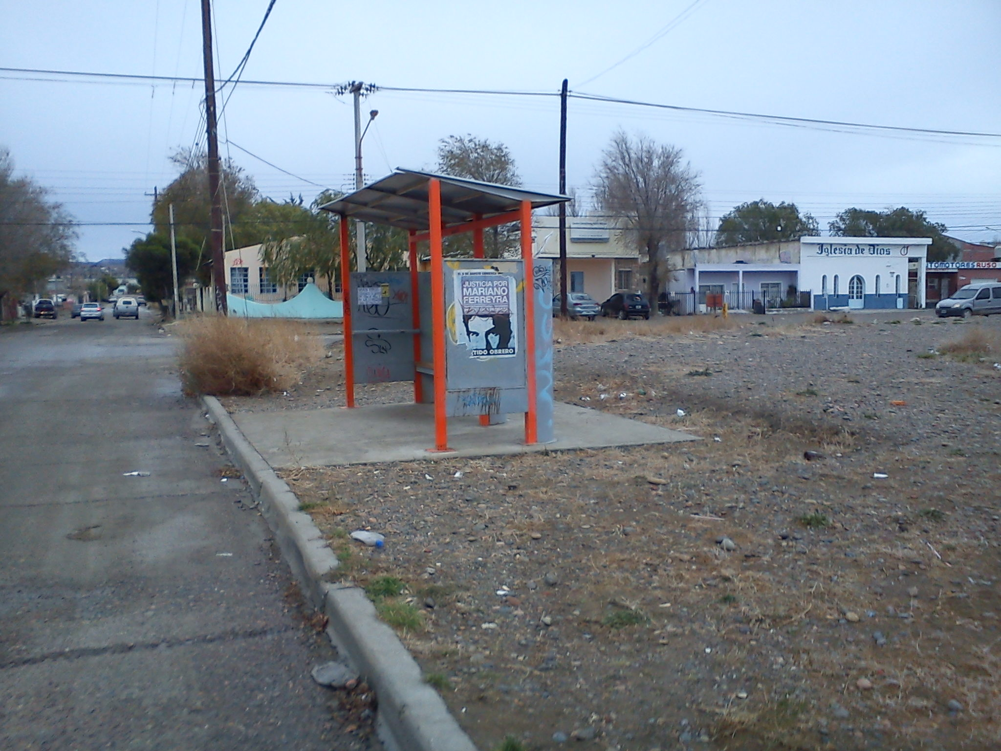 Parada de Autobuses Caleta Olivia